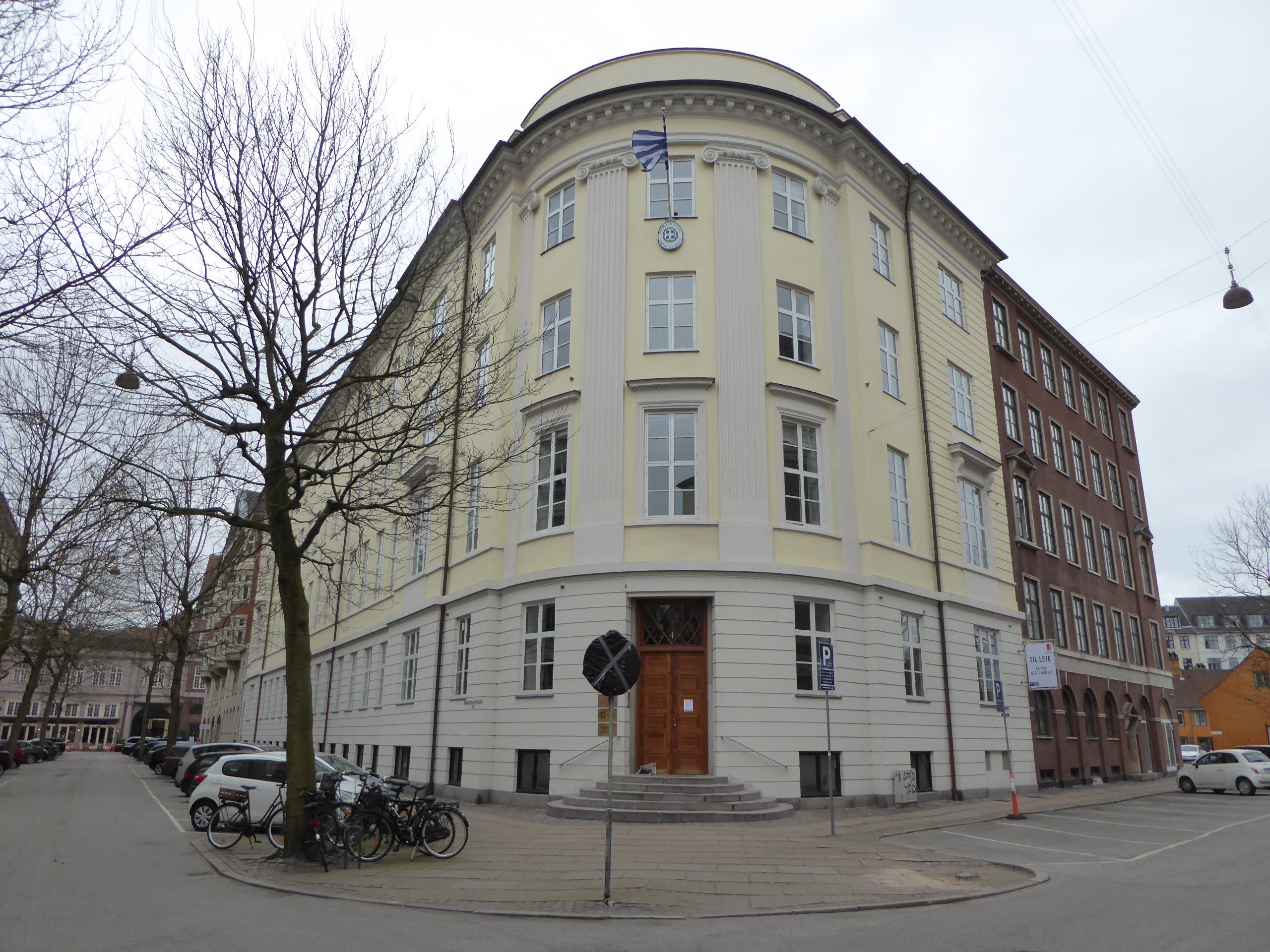 The embassy of Greece at the corner of Bornholmsgade and Hammerensgade in Indre By in Copenhagen.